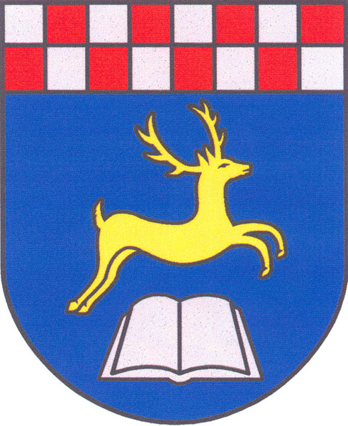 Municipal coat of arms of Hodslavice village, Nový Jičín District, Czech Republic.